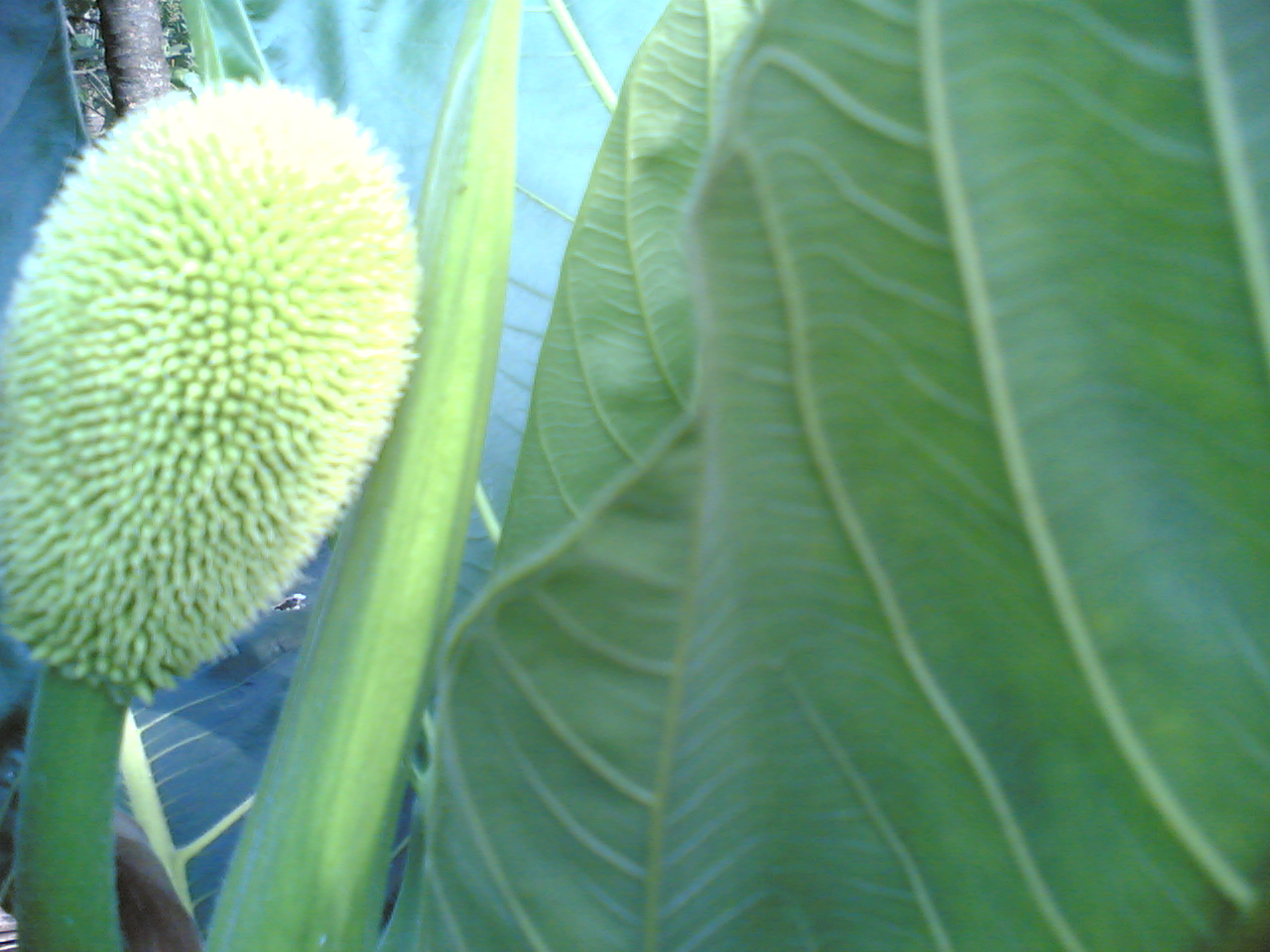 a young breadfruit Artocarpus altilis fruit.